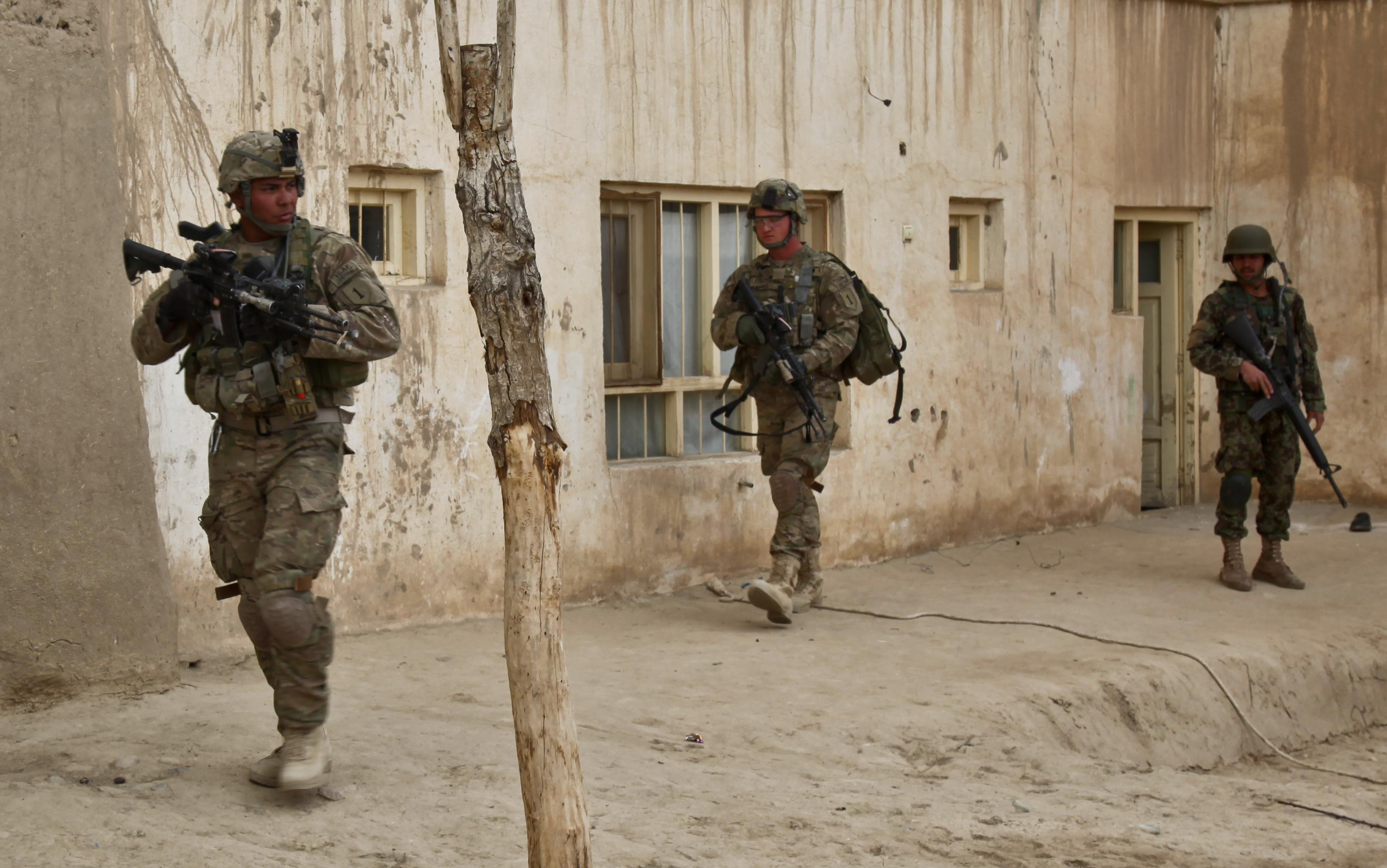 U.S. and Afghan National Army soldiers move toward their objective during a cordon and search operation in Nani, Afghanistan, on March 29, 2011.